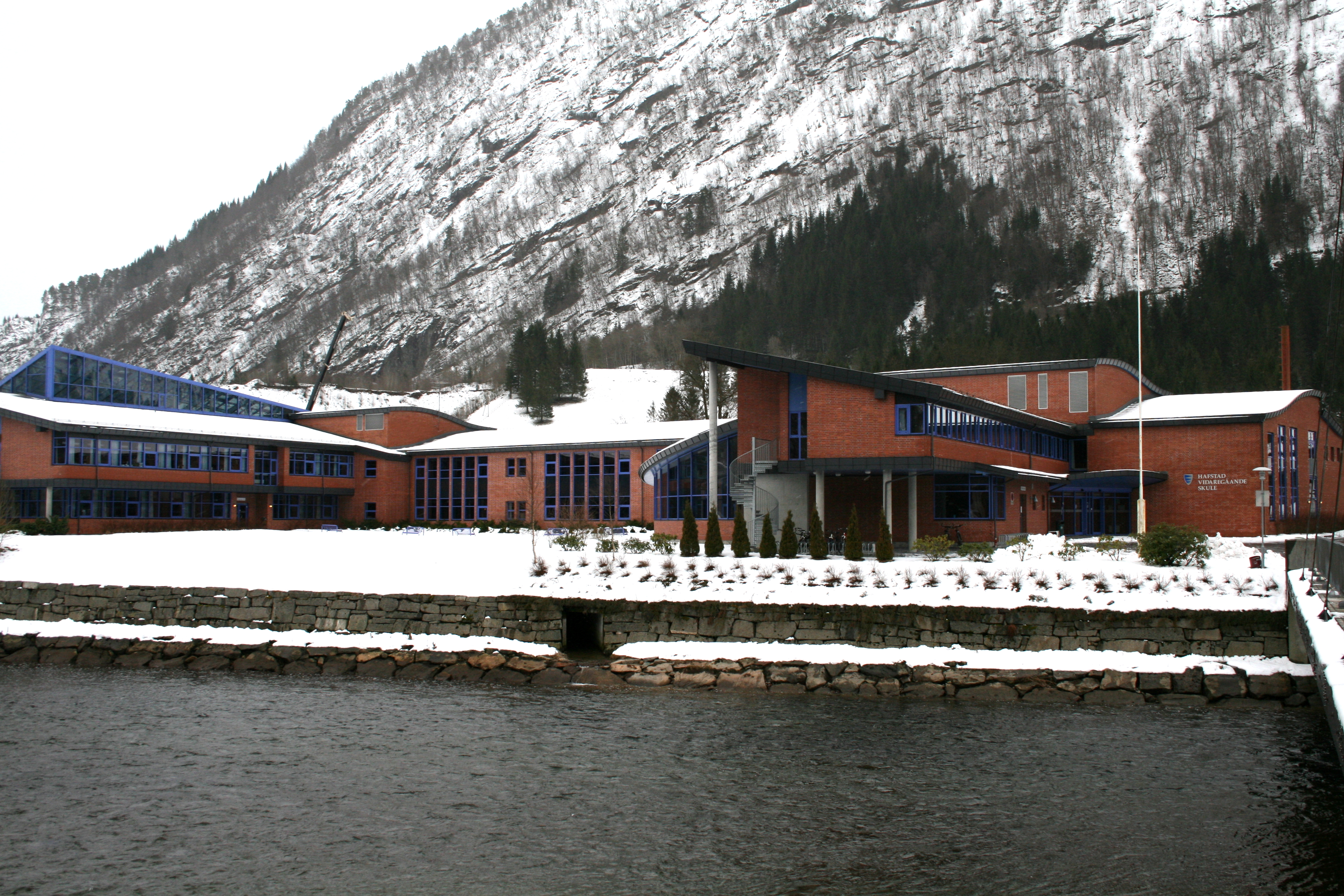 Hafstad upper secondary school in Førde kommune, Sogn og Fjordane, Norway (overview).